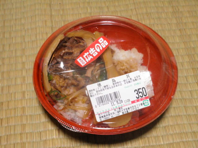 Tokushima bowl